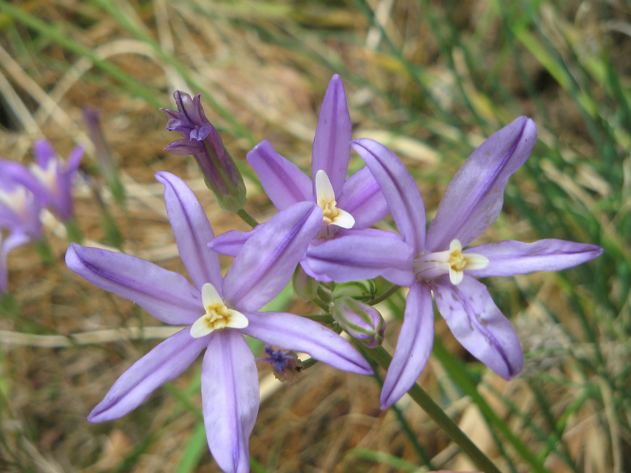 Brodiaea californica close-up